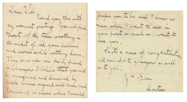 Letter from Gustav Holst to William G. Whittaker congratulating him on his appointment as Gardiner Professor of Music at the University of Glasgow. The text reads, "I send you this with my warmest greetings. You will find most of the tales soothing in the midst of all your labours and worries while settling down. When once you are fairly fixed in Glasgow I believe you will be recognised and honoured by people whose regard will mean much. I know of no other place where I would prefer you to be and I know no man whom I want to see in your post as much as I want to see you. So it's a case of congratulations all round — to Glasgow as well as to you."